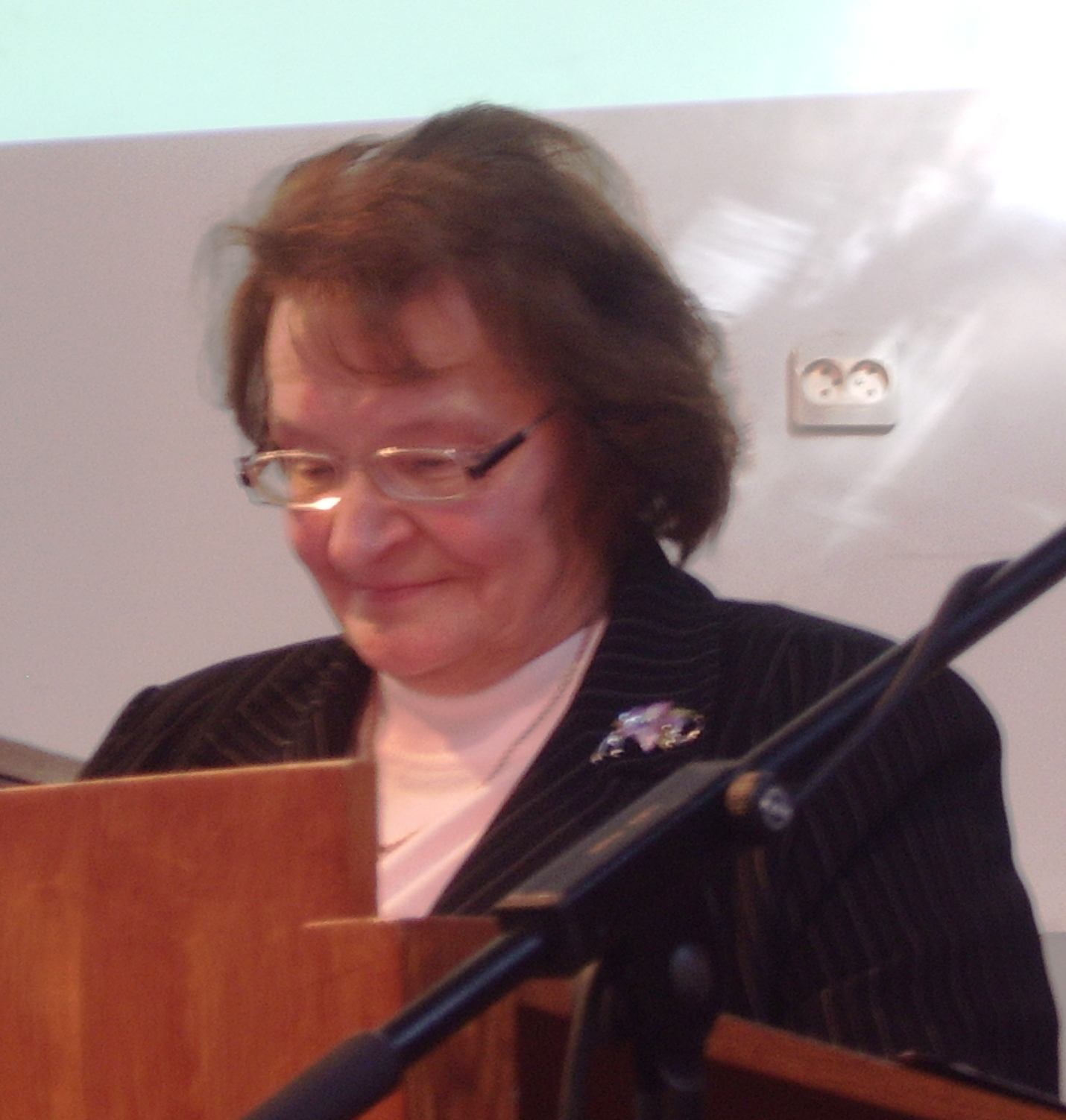 Teisi Remmel (born 1938)